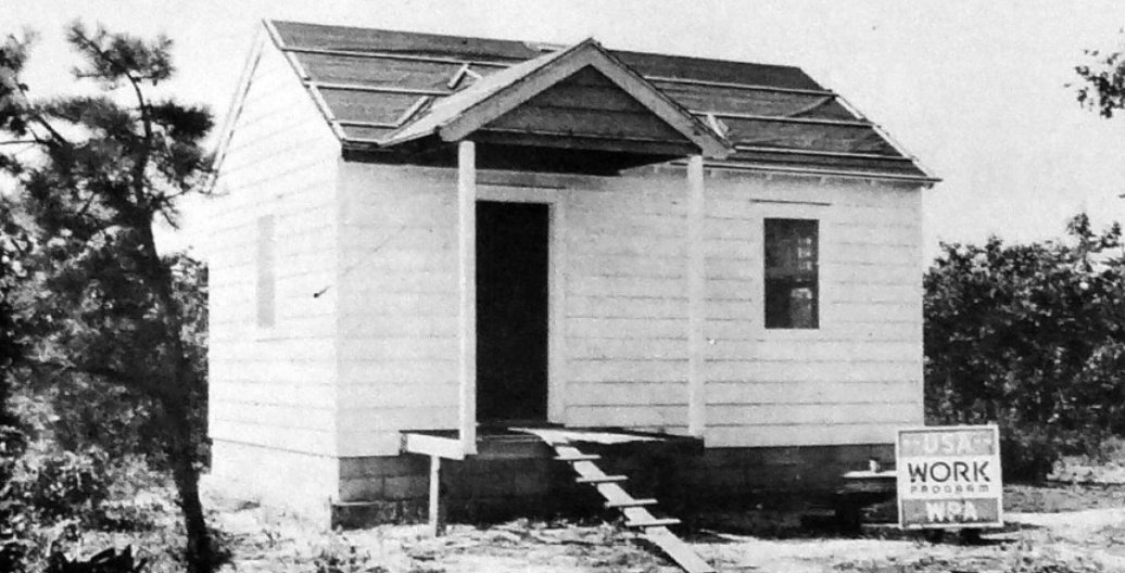 Roosevelt Colony old-age bungalow